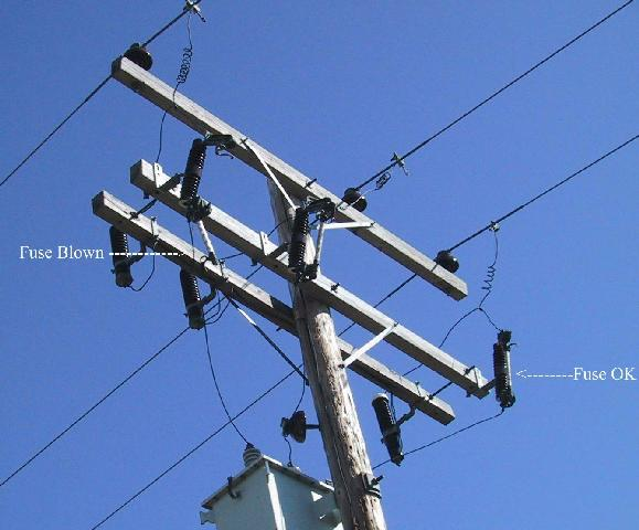 Pole mount transformer protected by three fusible cutouts. One fuse element (white barrel) has blown and is hanging down. 12.47 kV 3 Phase distribution line, at Gardiner Dam, Saskatchewan, Canada